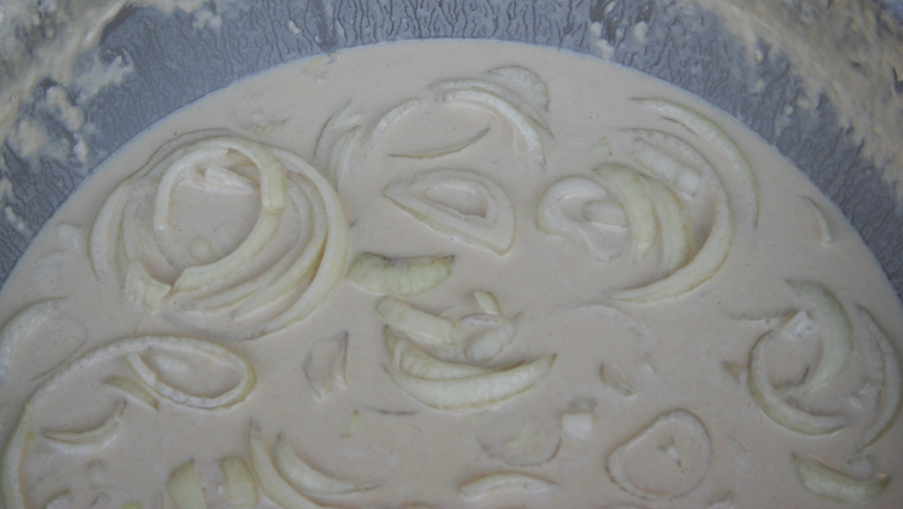 Onion rings covered in batter in preparation for deep frying